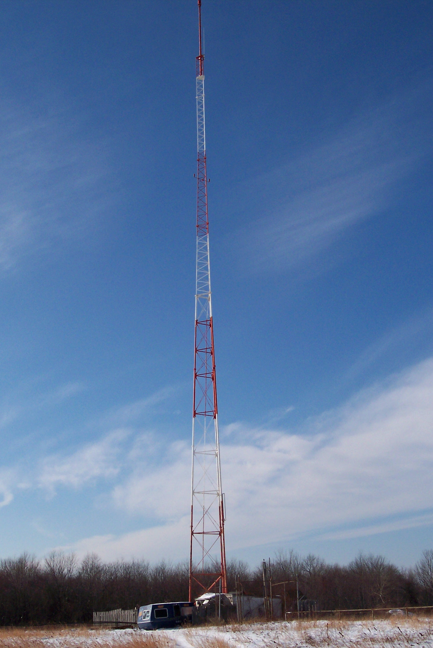 This is the transmitter site of Ware, Massachusetts radio station WARE on Coy Hill in Warren, Massachusetts, USA.